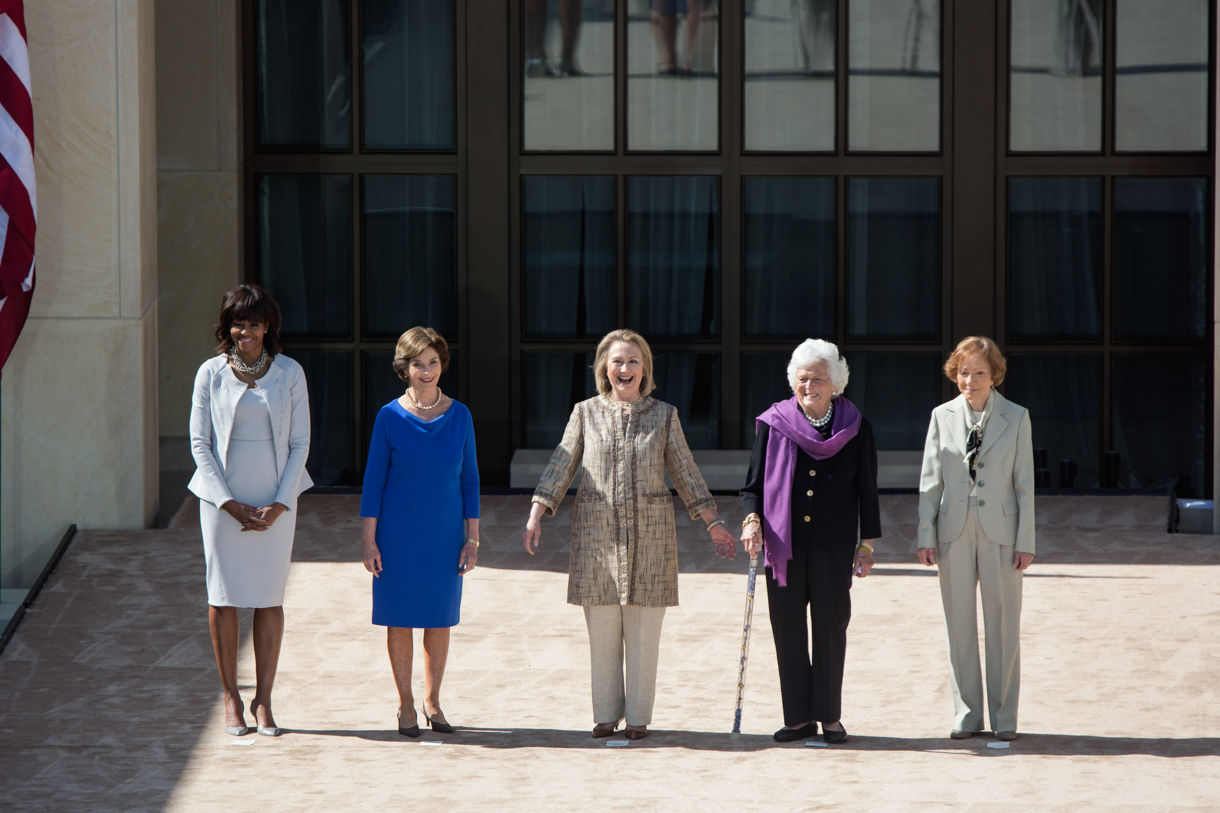 United States First Lady Michelle Obama with former First Ladies Laura Bush, Hillary Clinton, Barbara Bush, and Rosalynn Carter during the dedication of the George W. Bush Presidential Library and Museum on the campus of Southern Methodist University in Dallas, Texas, on 25 April 2013. As of January 20, 2017, these are all five of the living former First Ladies of the United States.